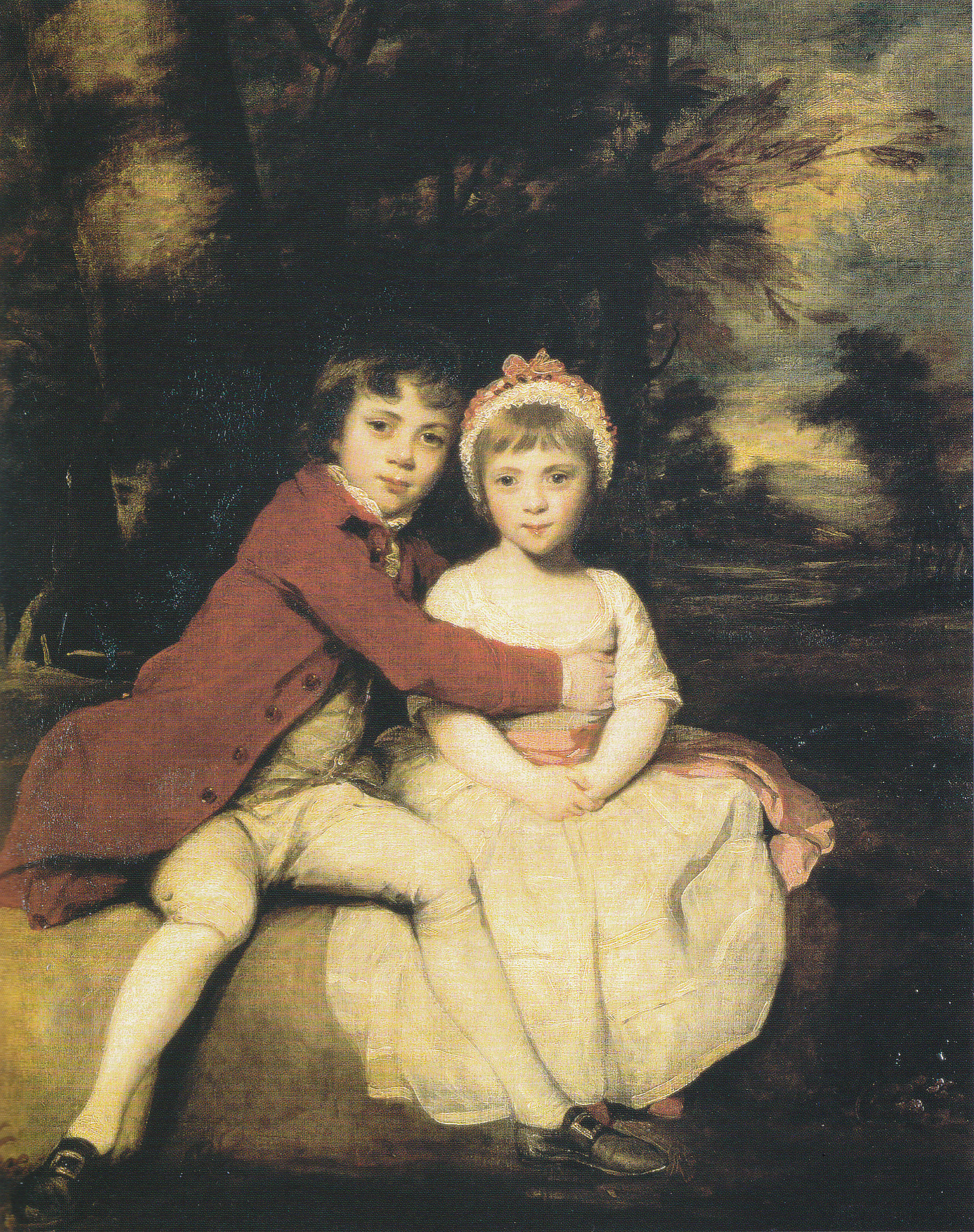 Portrait when children of John Parker, the future 1st Earl of Morley, with his sister Theresa Parker, later the Hon. Mrs George Villiers (1775-1856), as children